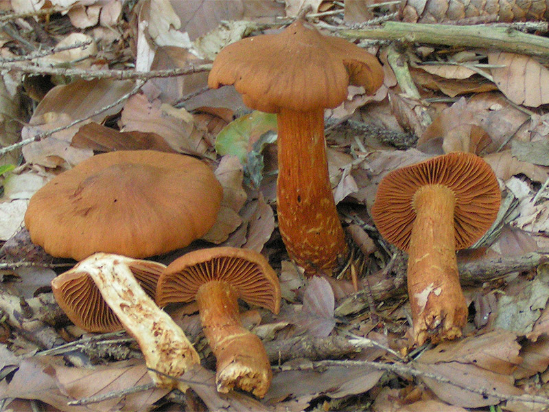 Deadly webcap